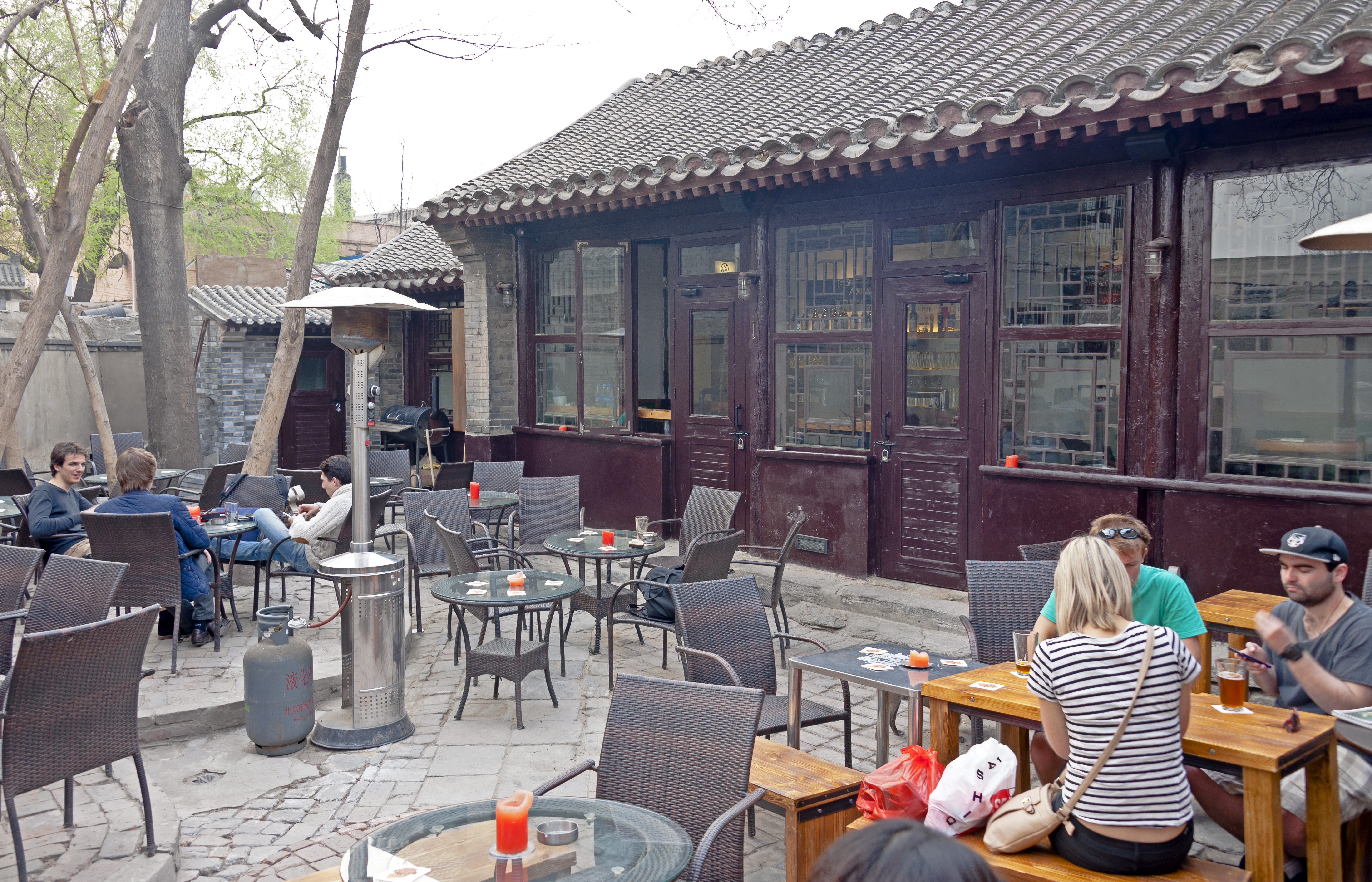 Courtyard at Great Leap Brewing hutong location, Beijing